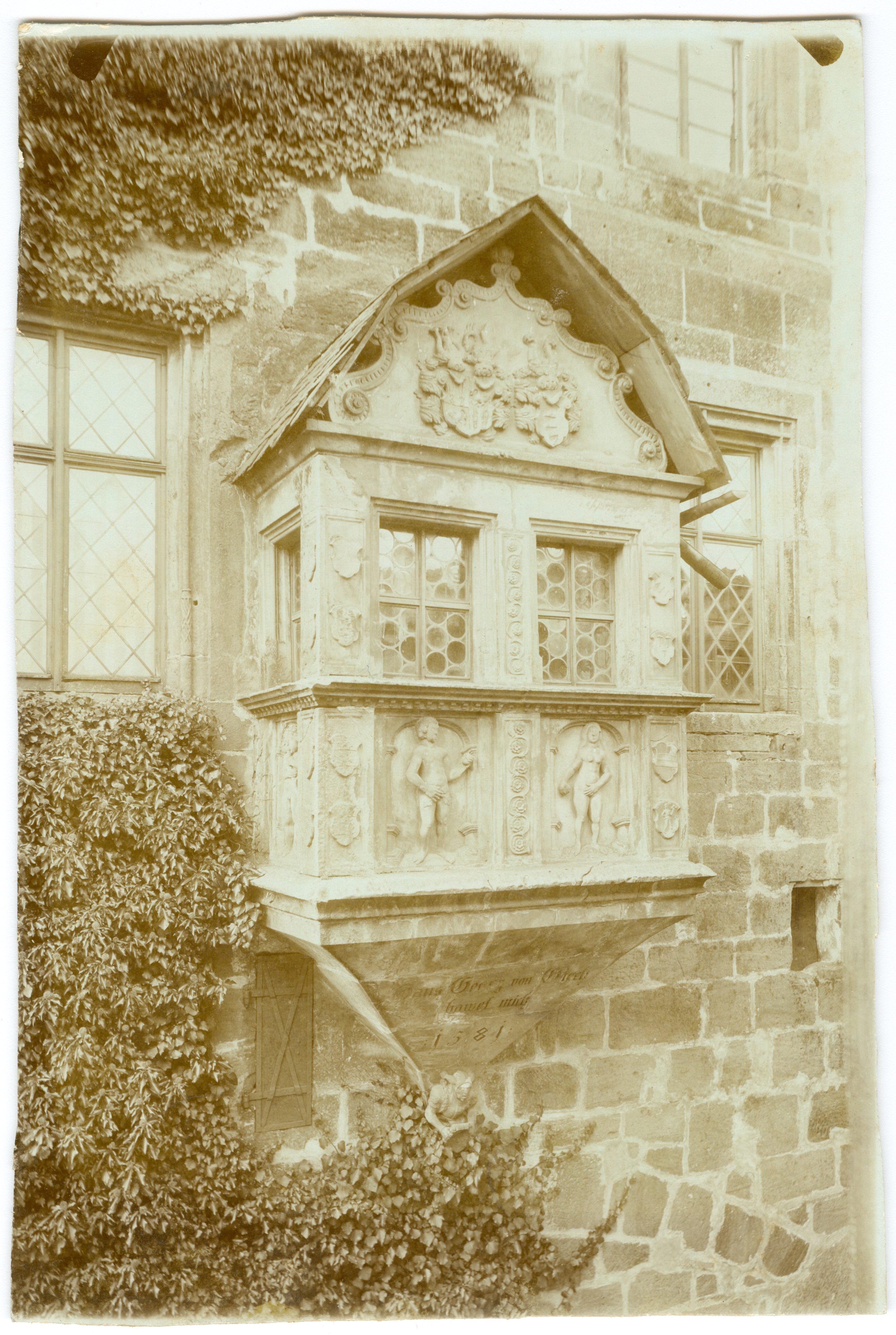 Thurnau Castle, bay